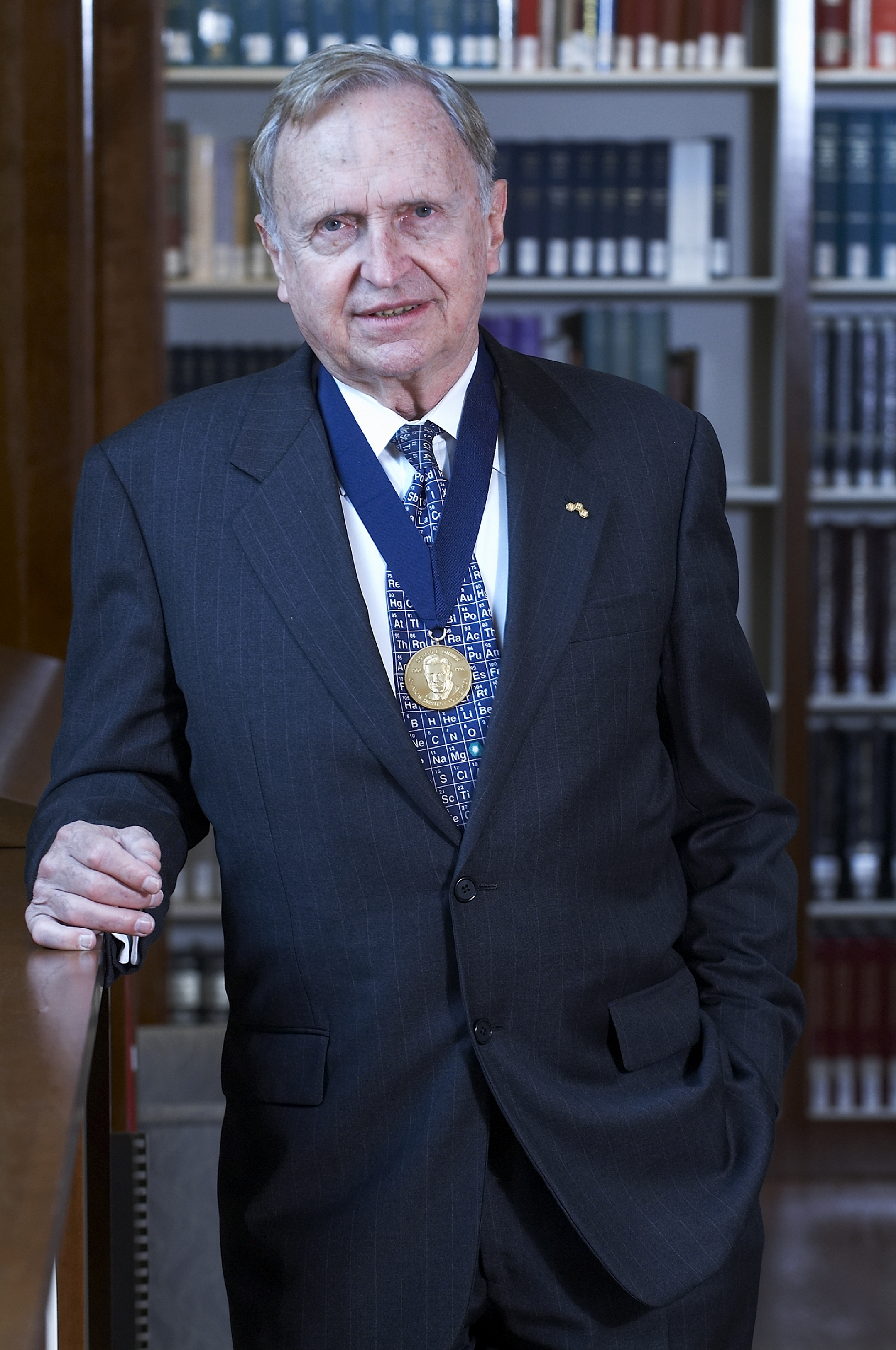 Photograph of chemist Ronald Breslow, with the Othmer Gold Medal, awarded 2006, at the Chemical Heritage Foundation.